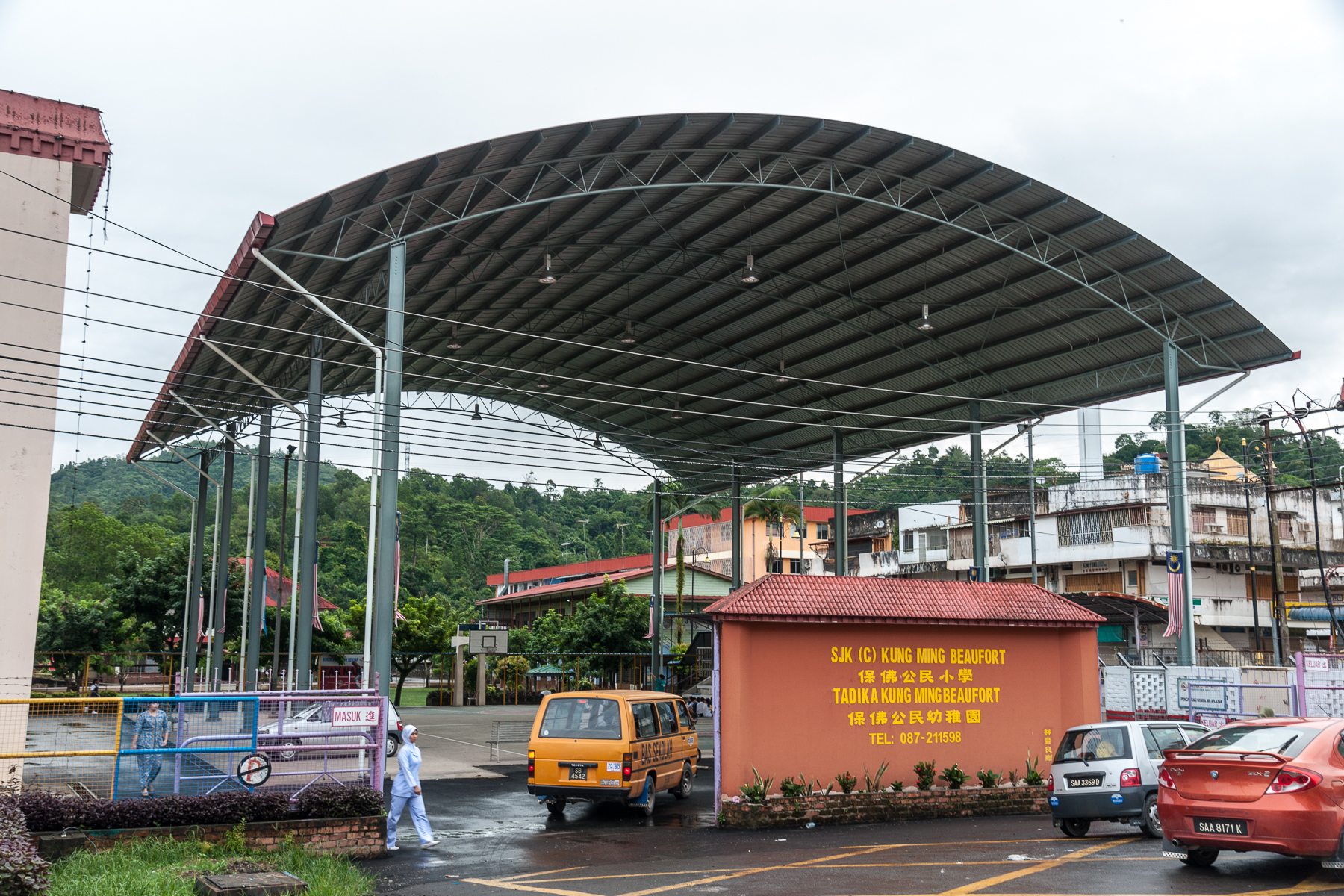 Beaufort, Sabah: SJK (C) dan Tadika Kung Ming / Chinese Kung Ming School and Kindergarten